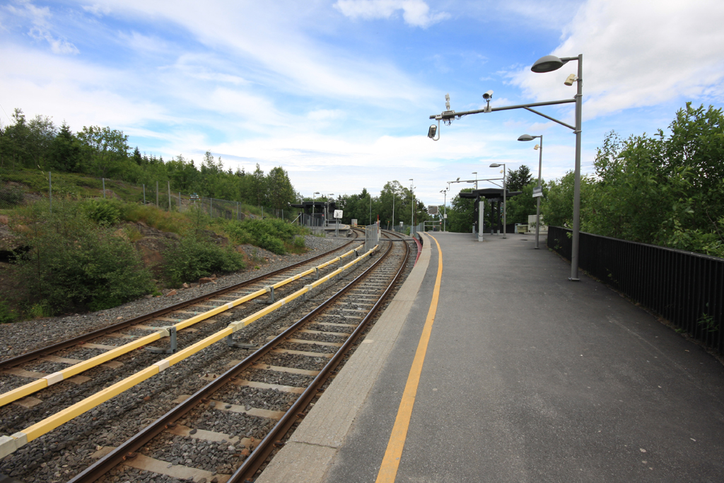 Frognerseteren Metrostation. Seen from the end of northbound track 1.